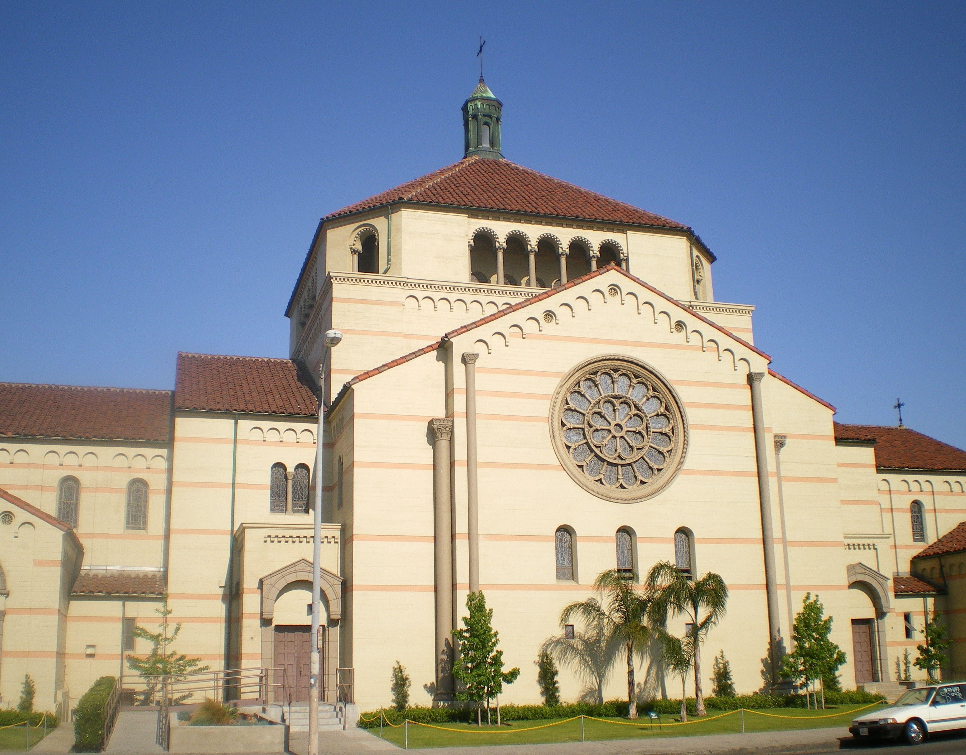 St. Cecilia Catholic Church, 4230 South Normandie Avenue Los Angeles, CA 90037